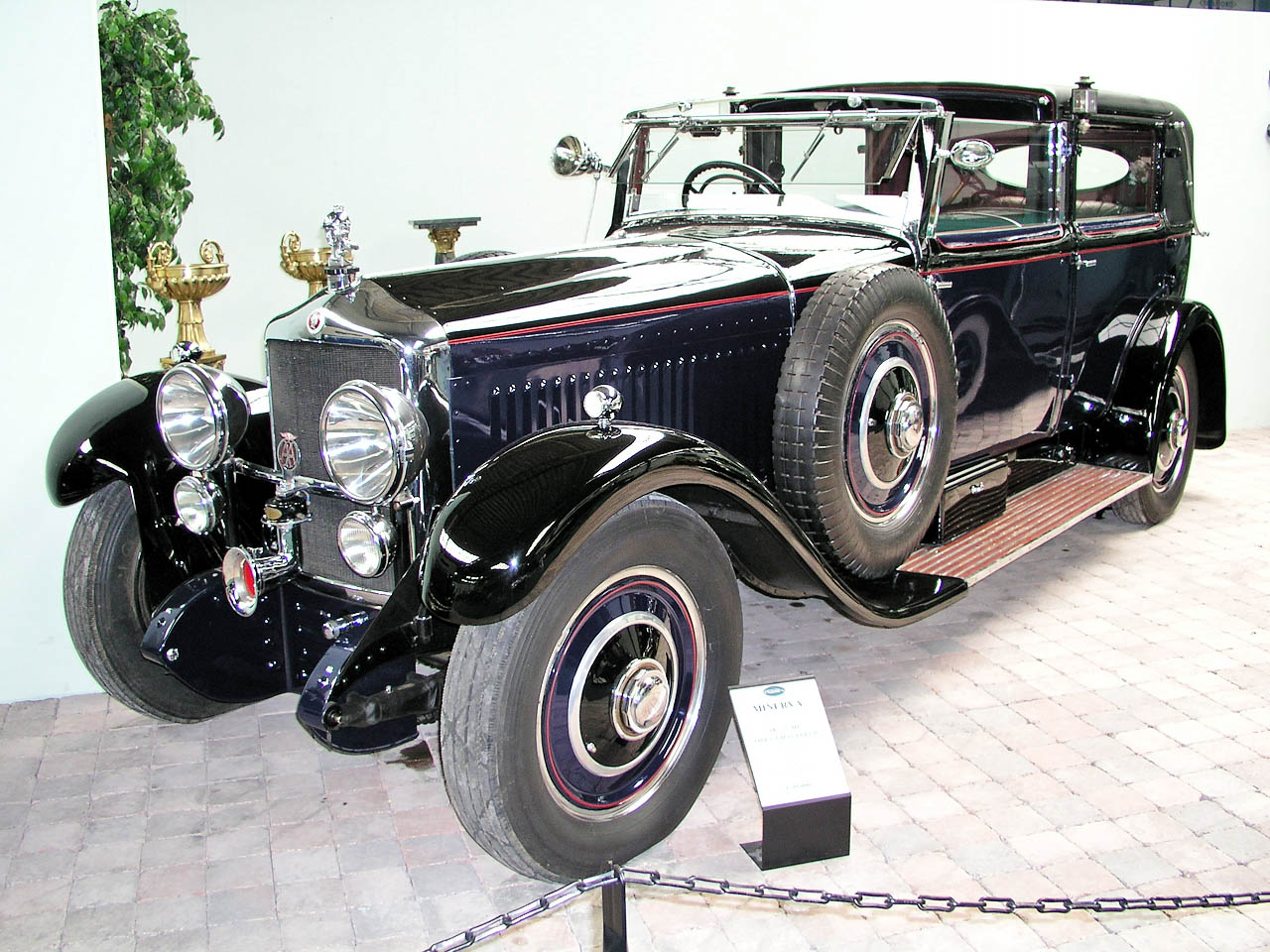 32 HP model powered by a 5952 cc 6-cylinder engine with sleeve-valves, made in Belgium by Minerva Motors SA; front side view